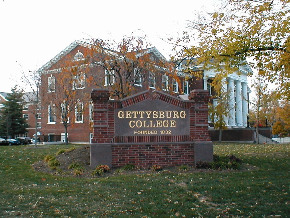 Photo taken of the main sign of Gettysburg College.